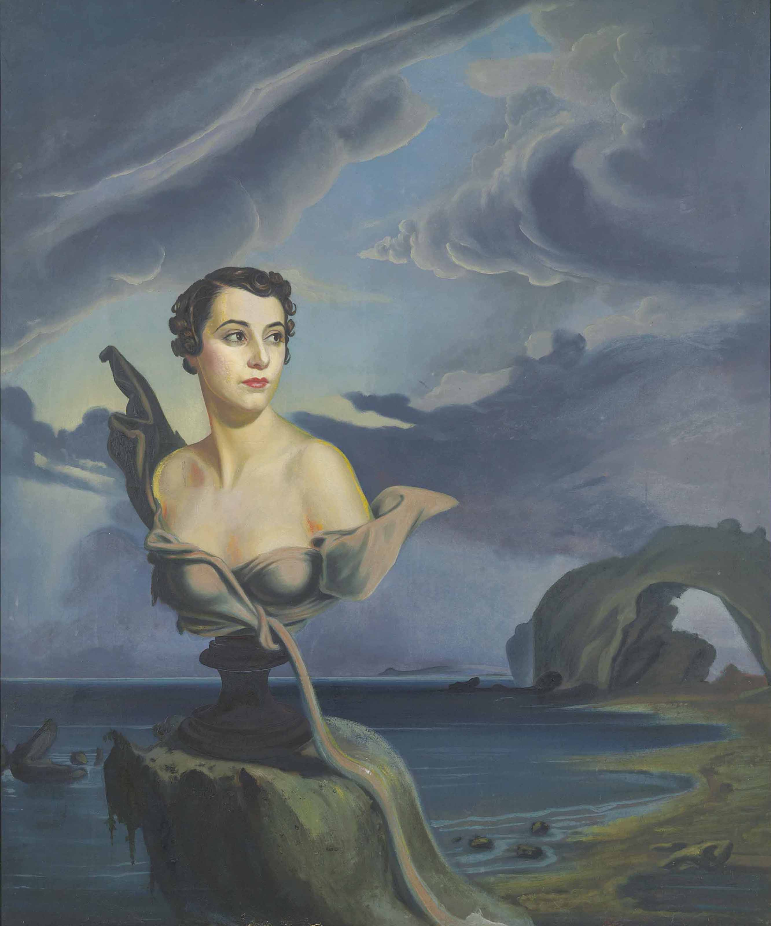 Loelia, Duchess of Westminster oil on canvas 153 x 127 cm